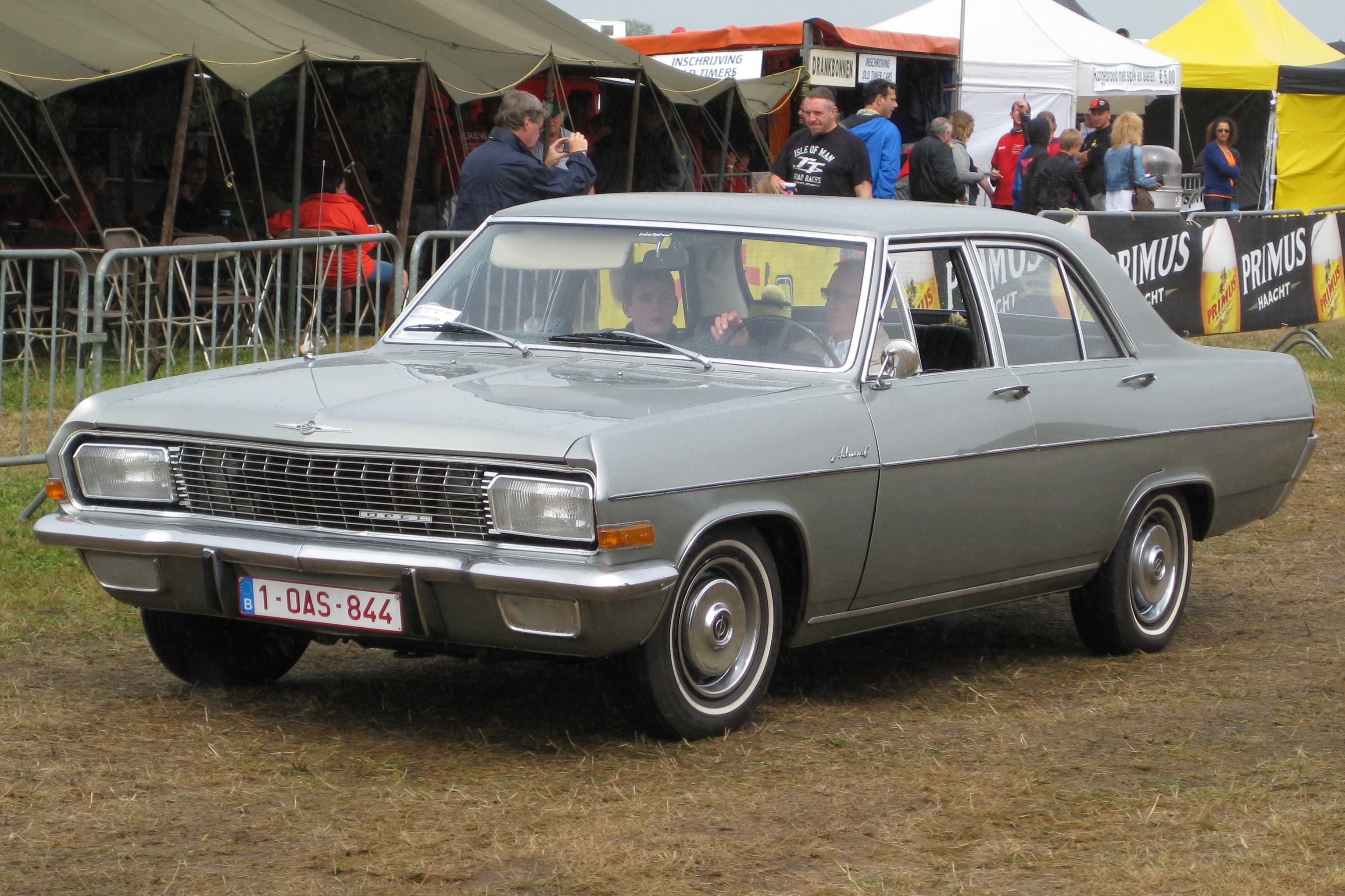 Opel Admiral A, Schaffen Diest Fly-Drive 2013